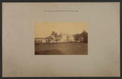 Tokyo School for the Deaf, circa 1900